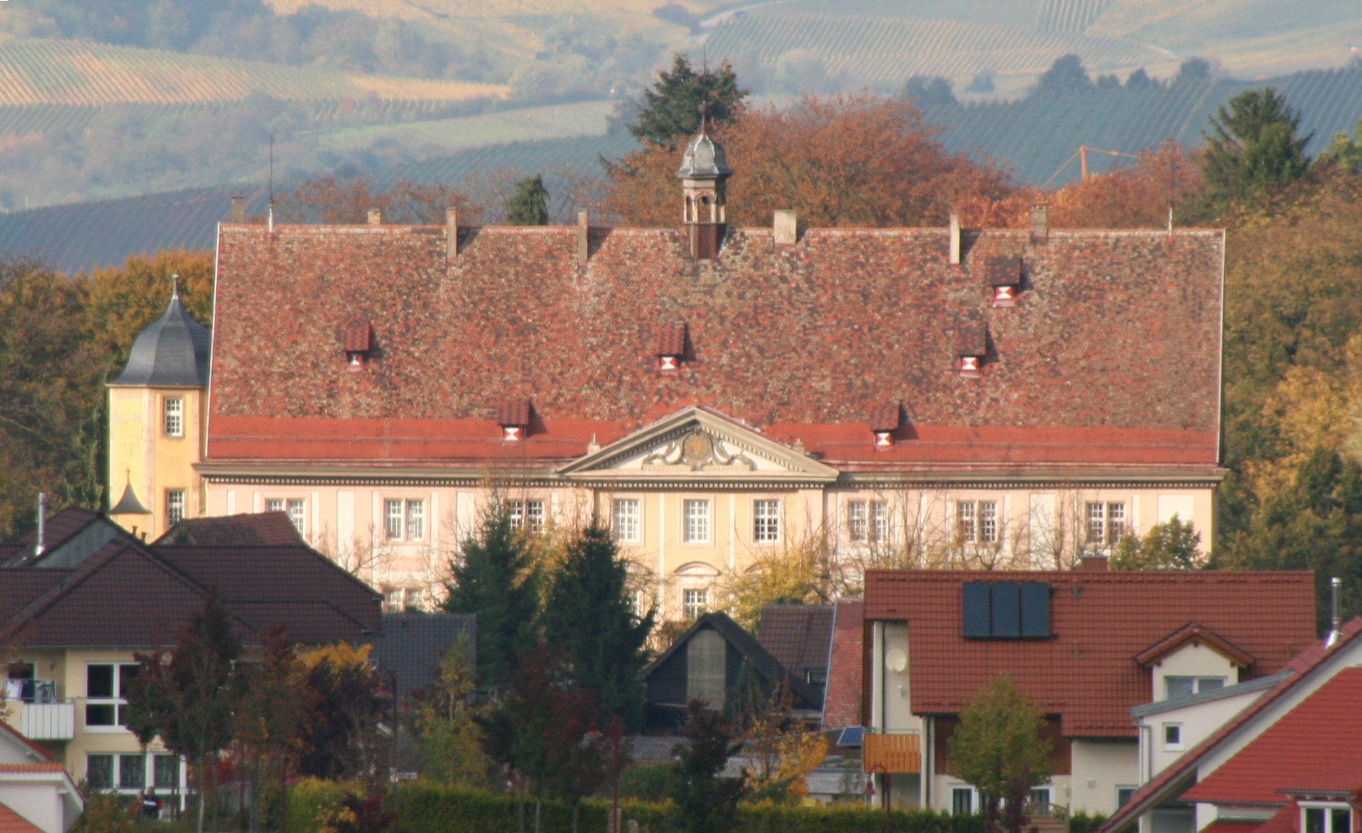 The castle of Lehrensteinsfeld